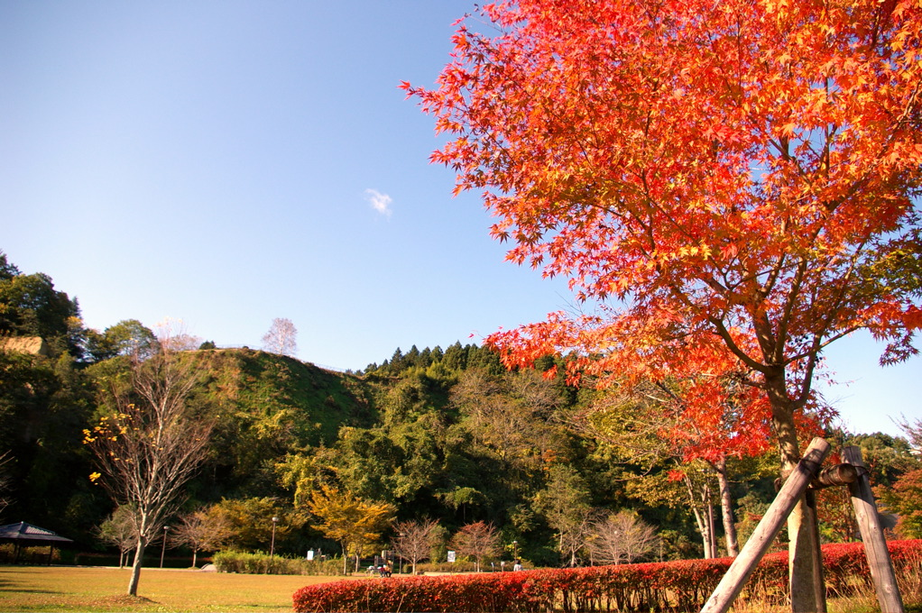 Site of Iwadeyama Castle in Ōsaki-shi, Miyagi.